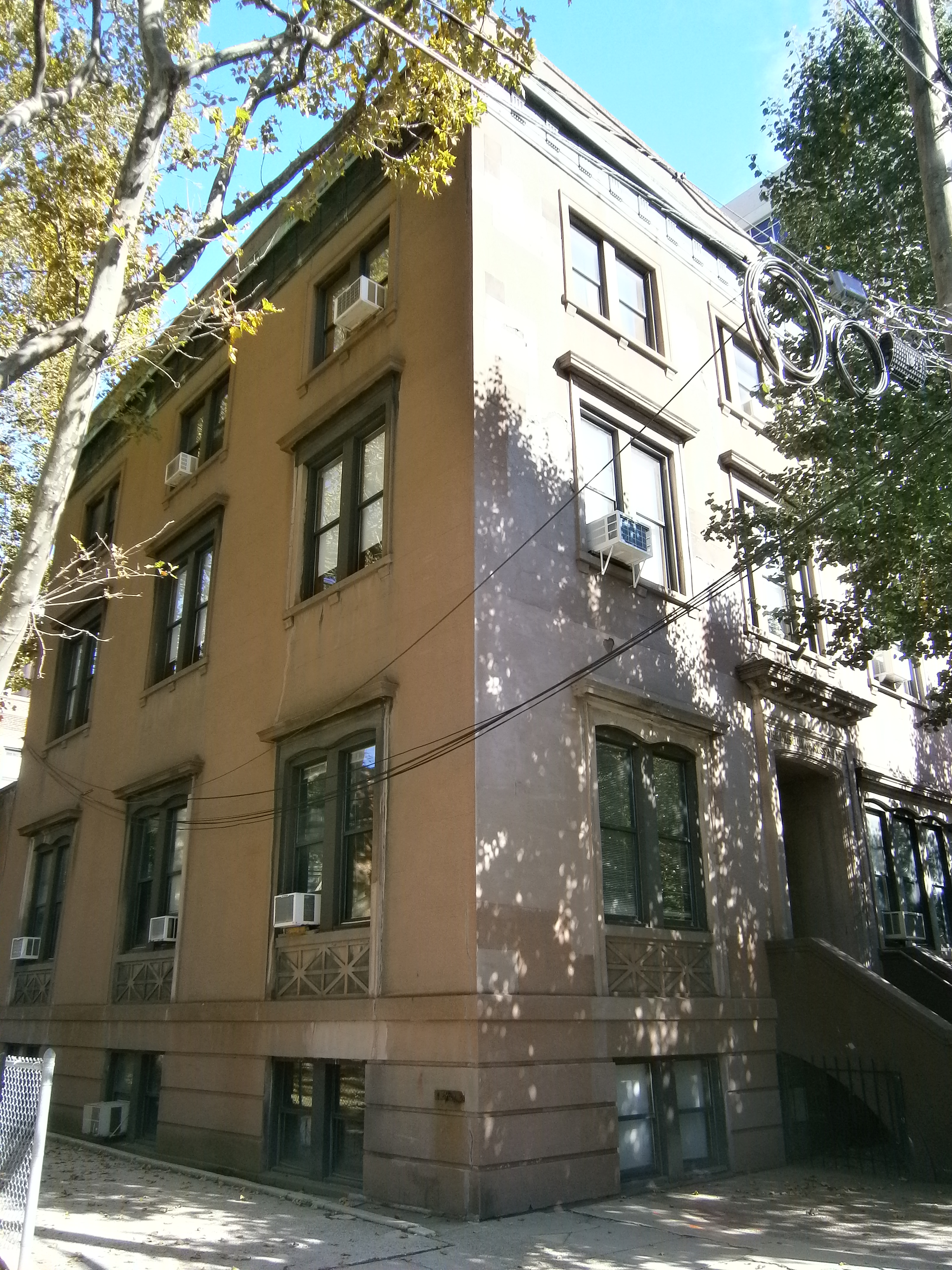 MoRA (Museum of Russian Art) in CASE (Committee for Absorbtion of Soviet Emigres) building in Paulus Hook, Jersey City